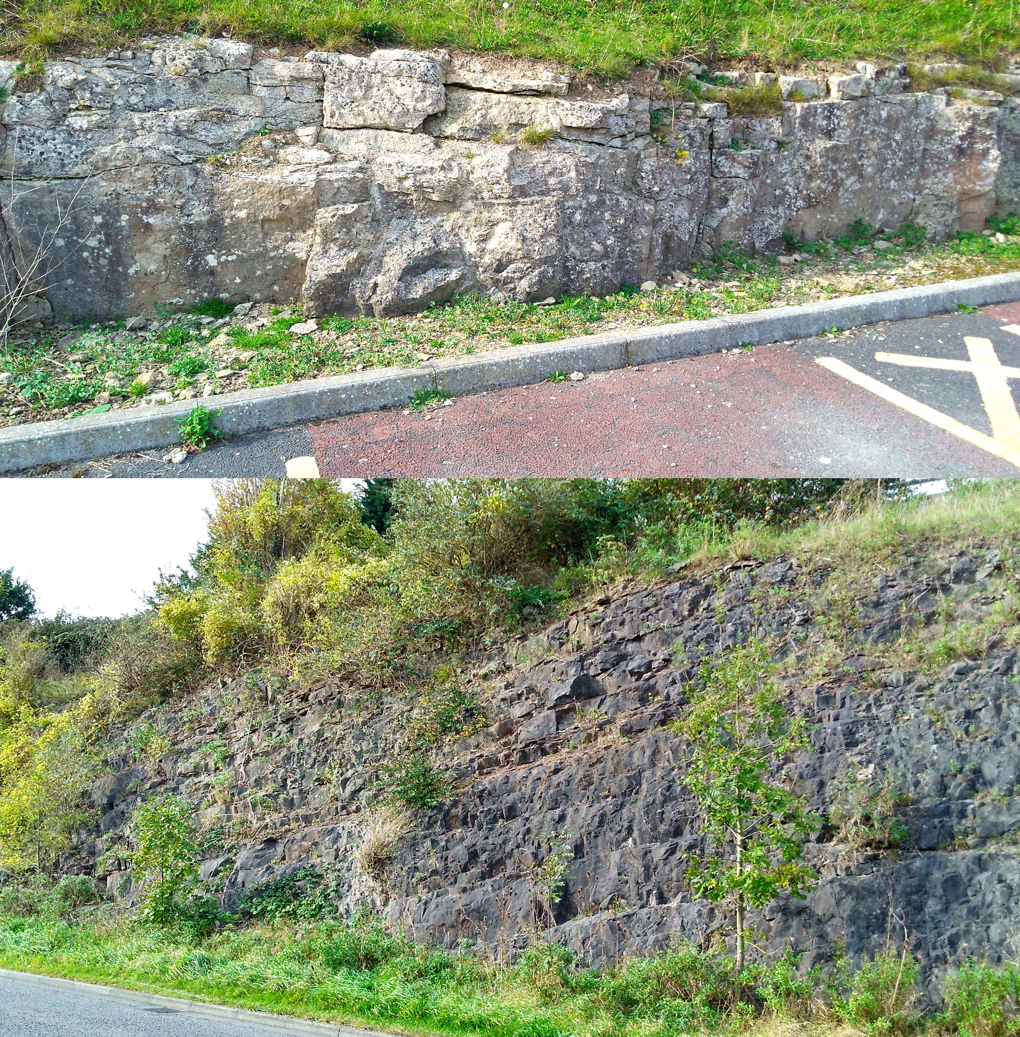 Hunts Bay and Black Rock limestone exposed by the link road between Bulwark and the M48, in Chepstow.